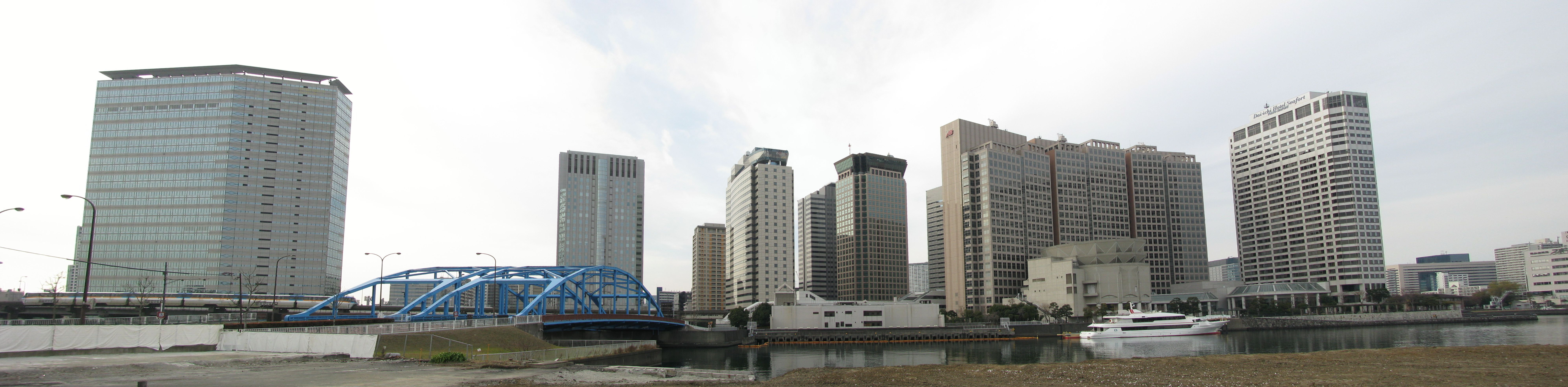 The Tennōzu is a Isle. This location is Higashi-shinagawa in Shinagawa, Tokyo, Japan.